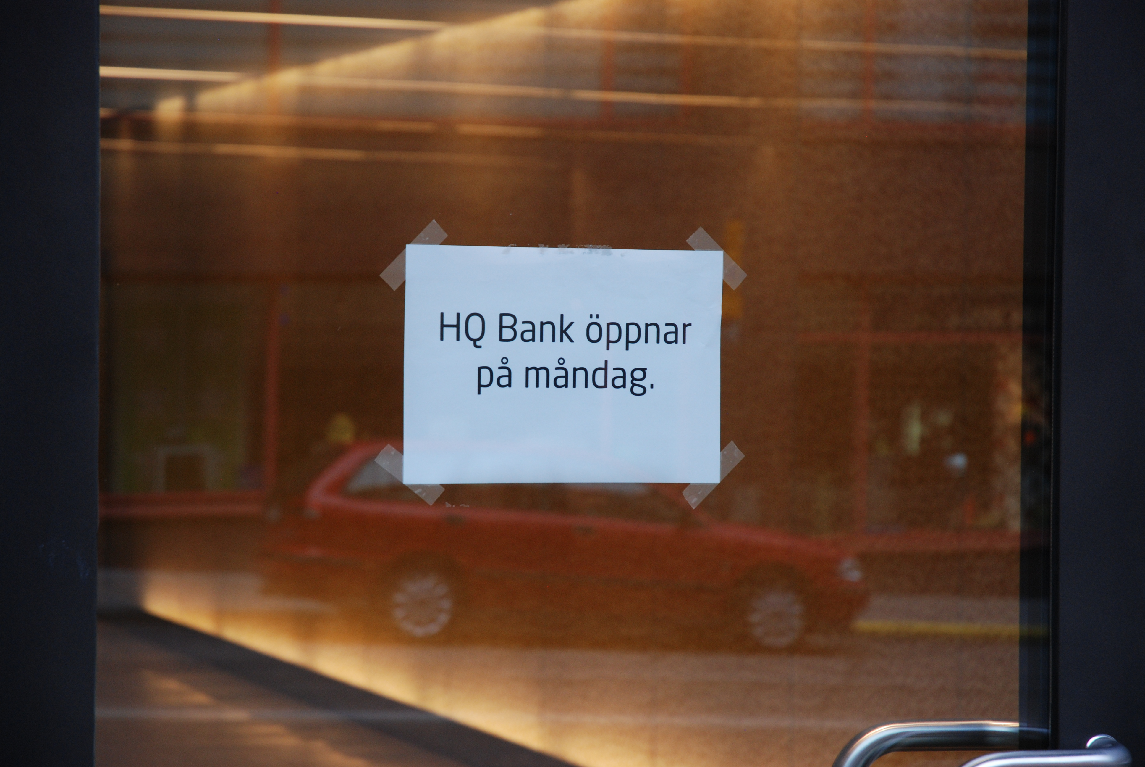 HQ Bank Head Quarters Regeringsgatan/Mäster Samuelsgatan, Stockholm Sweden. Entrance door with sign "HQ Bank will open on Monday" during the crisis.